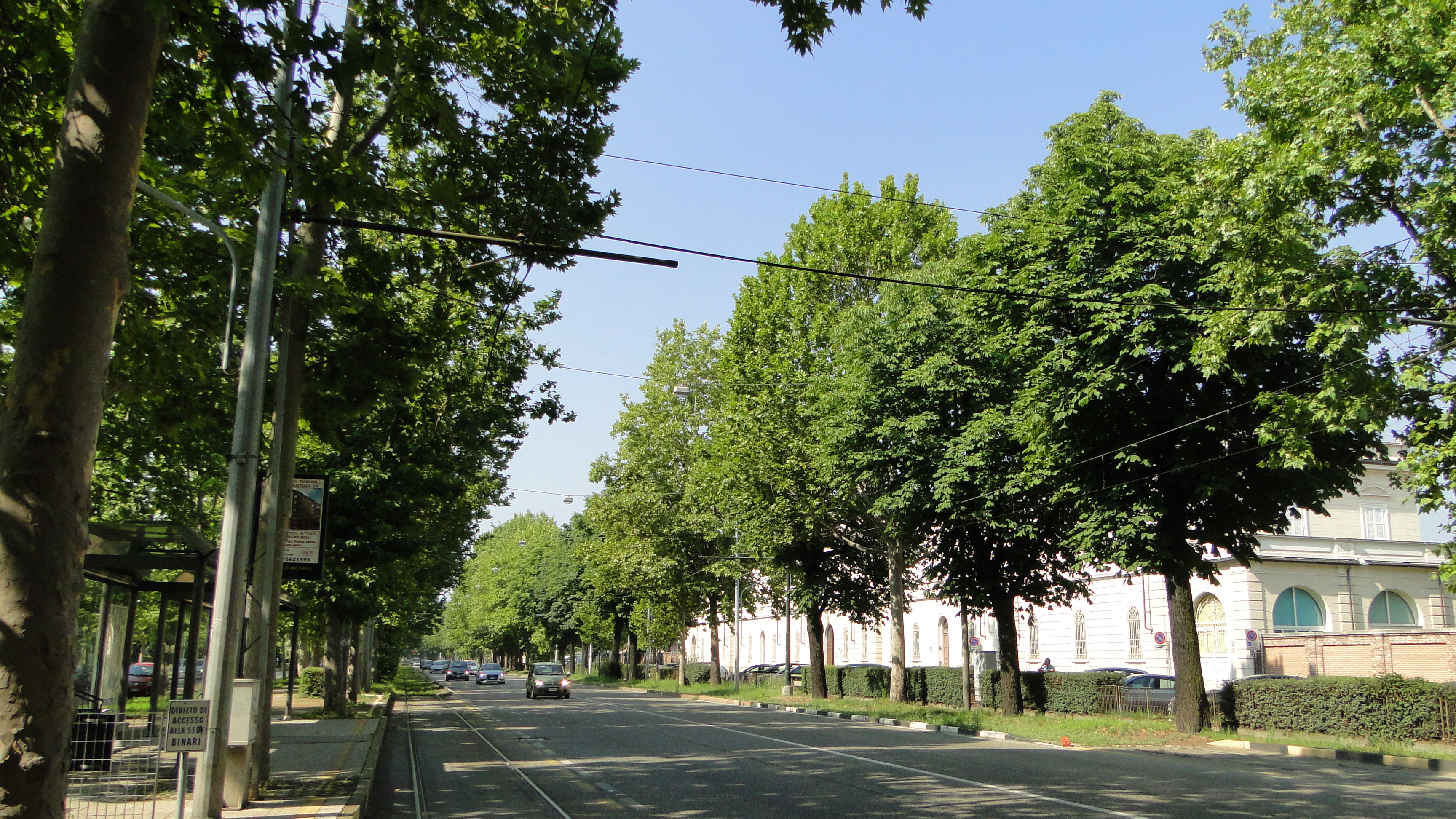 Turin (Italy) - IV November Ave.